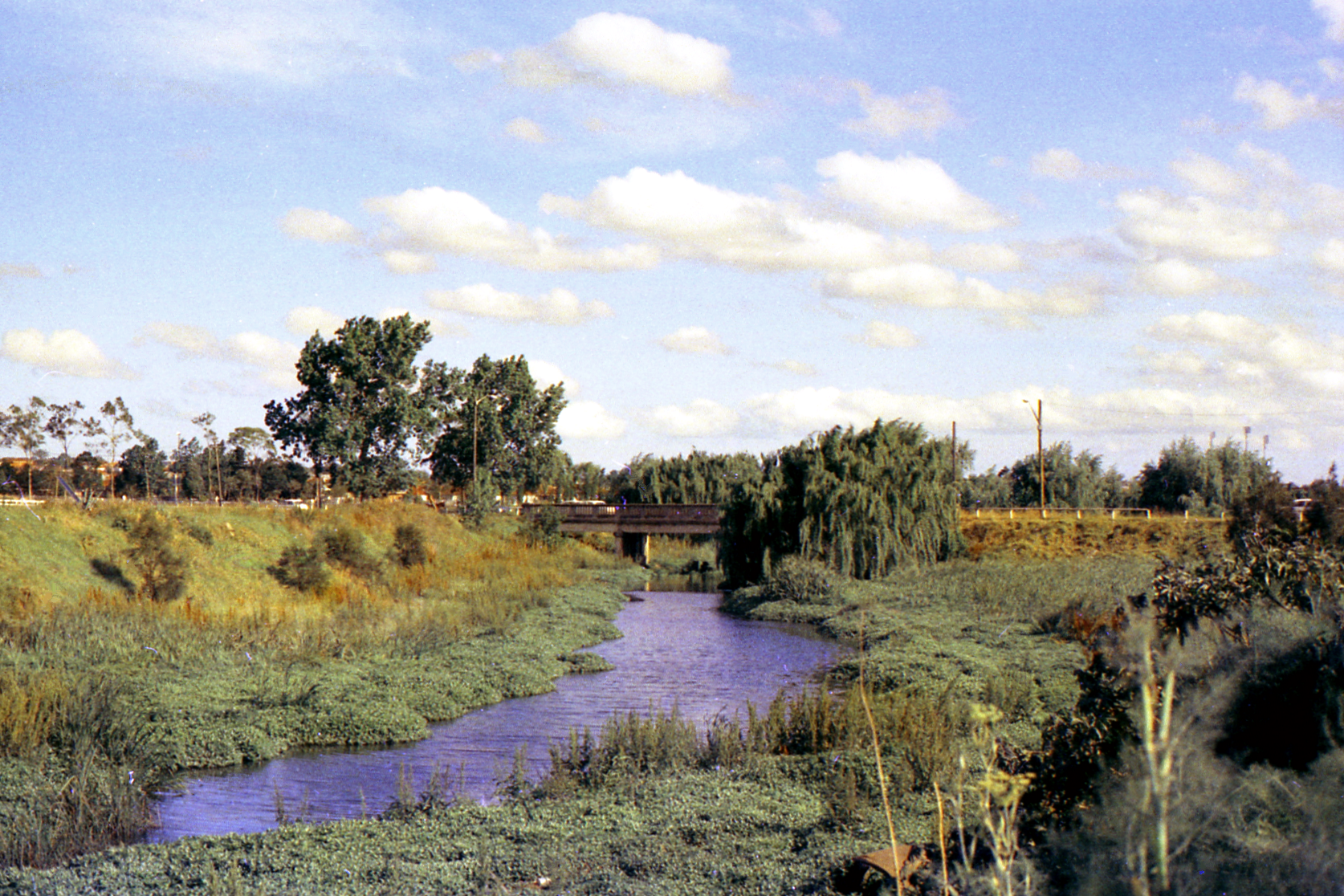 View of Duck River and the Mona Street Bridge, South Granville, NSW, Australia